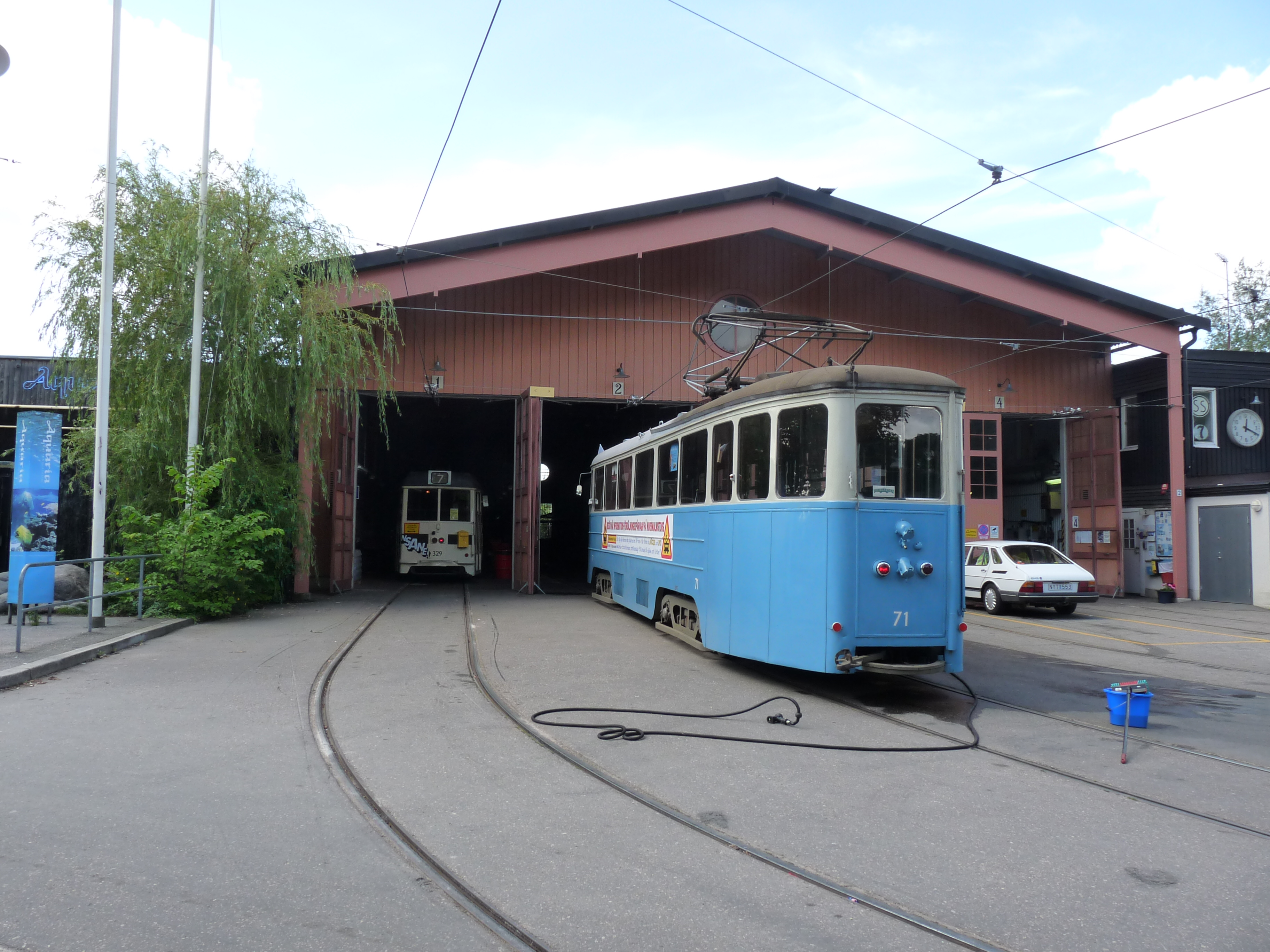 Tram service station in Djurgården